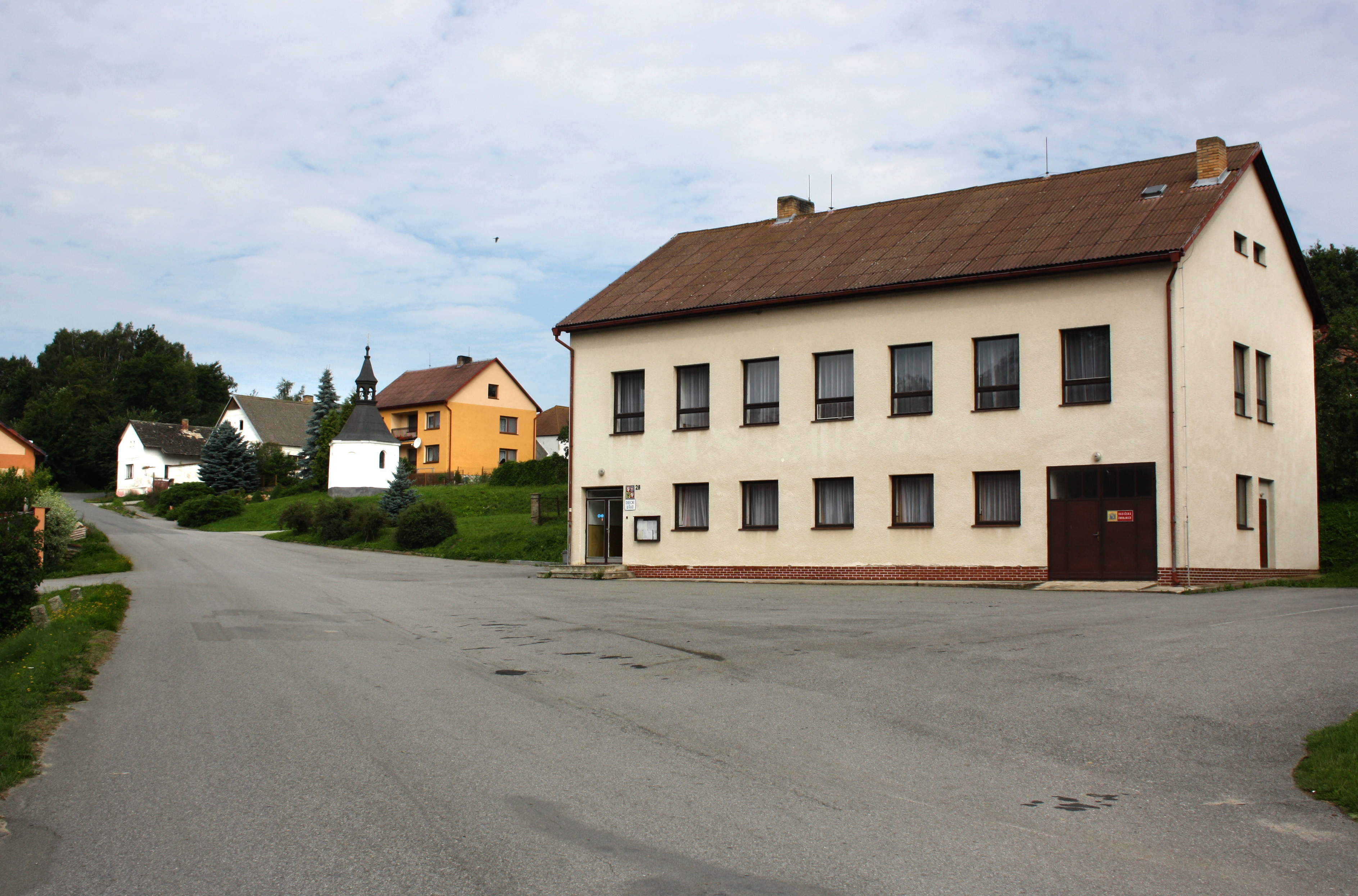 Common in Krasíkovice village, Czech Republic